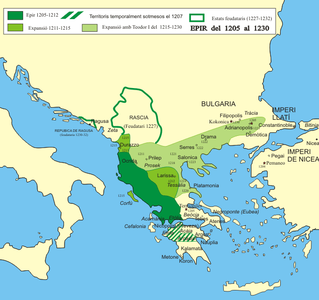 The territory of Despotate of Epirus from 1205 to 1230. An SVG version of this map is available here